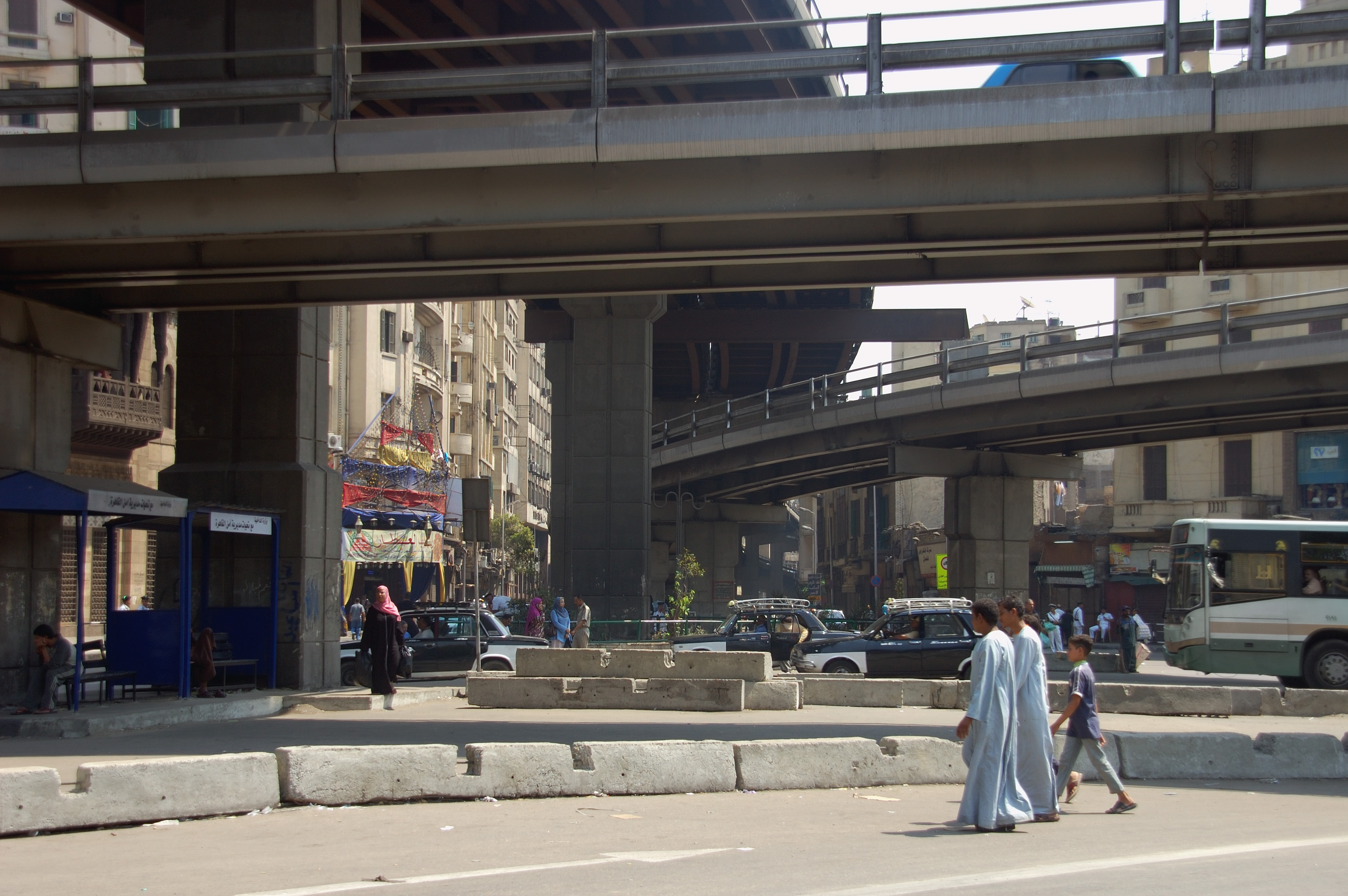 I think that Cairo was a civil engineer's dream... they seem to have had a free hand in the city. Infrastructure everywhere!